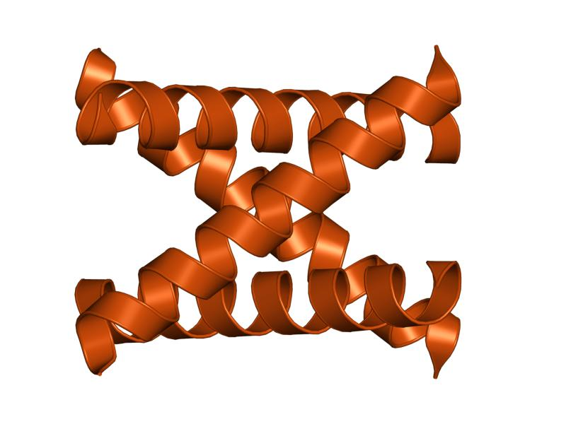 Cartoon representation of the molecular structure of protein registered with 1nyj code.